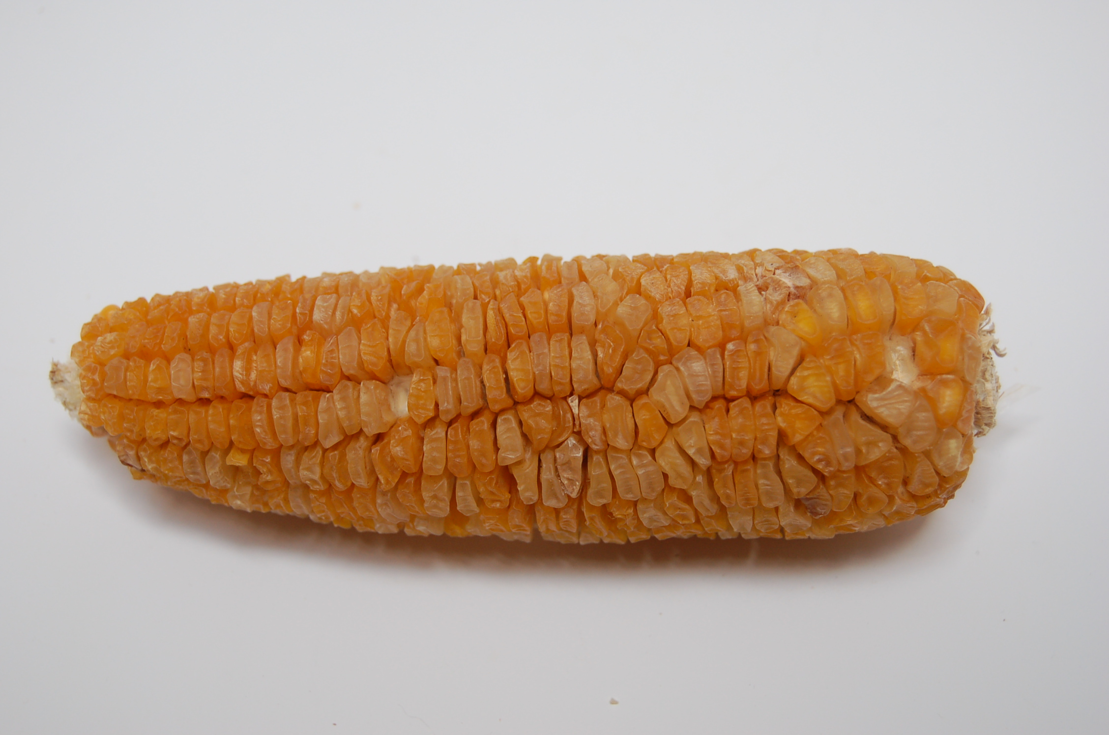 sweet corn, dry. Grains wrinkle due to their content in dextrines rather than starch.